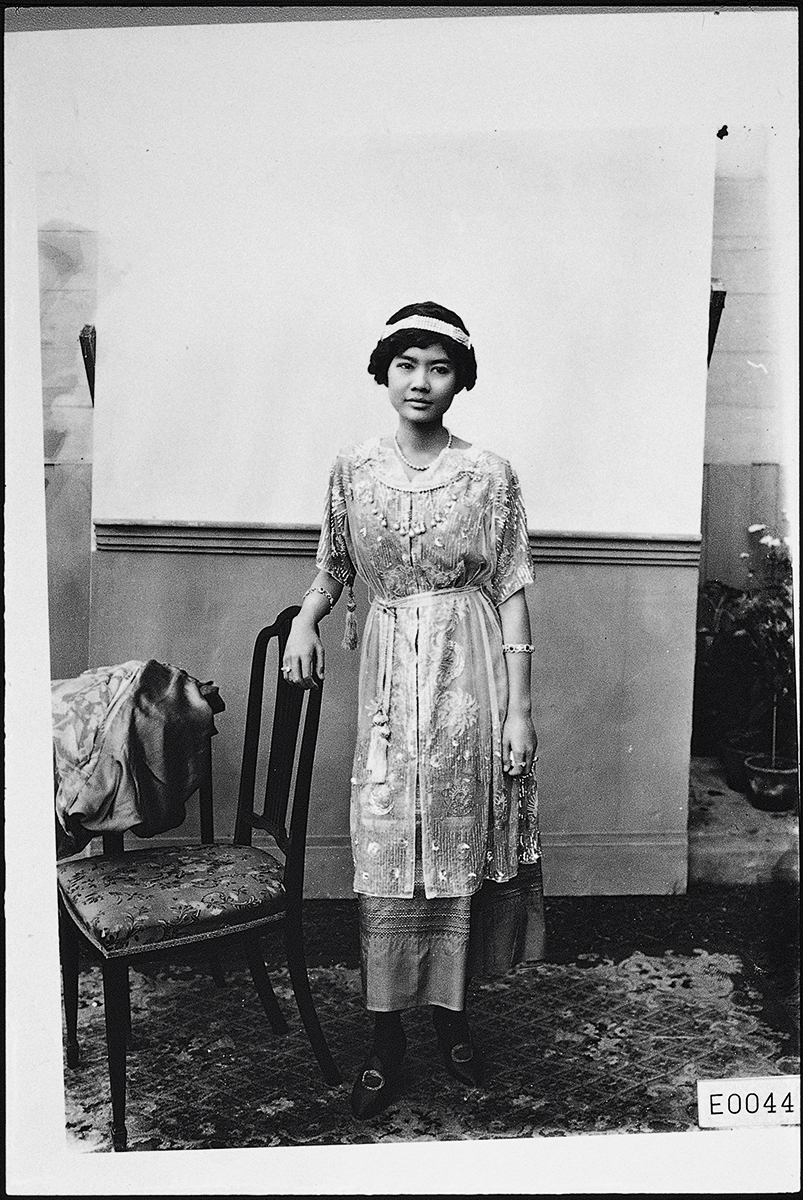 Princess Vallabha Devi, ex-fiancée of Rama VI